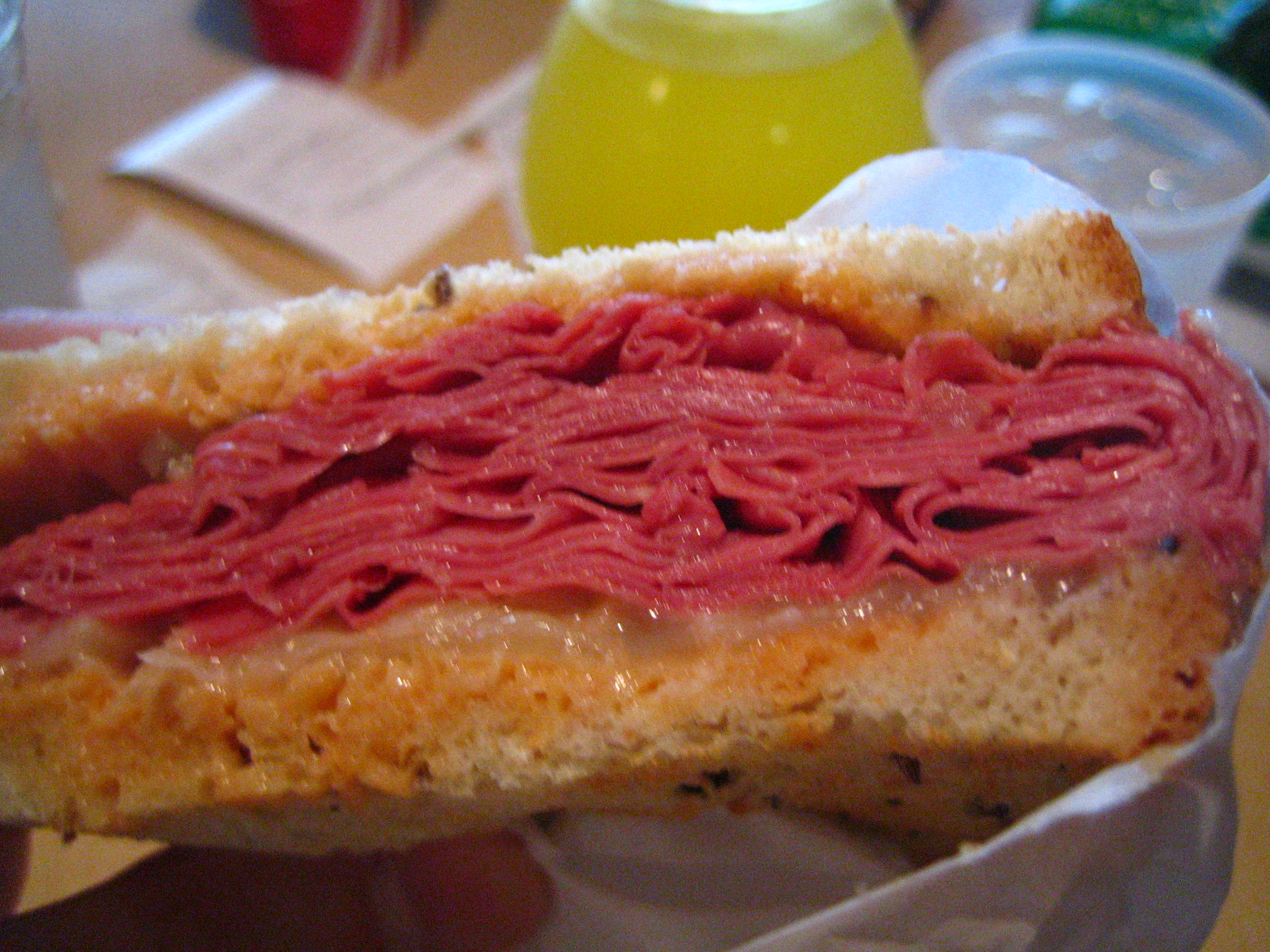 Corned beef Reuben sandwich